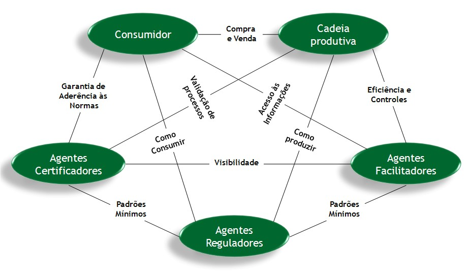 The figure represents the participants in the tracing process, its intercomunication and relationship.